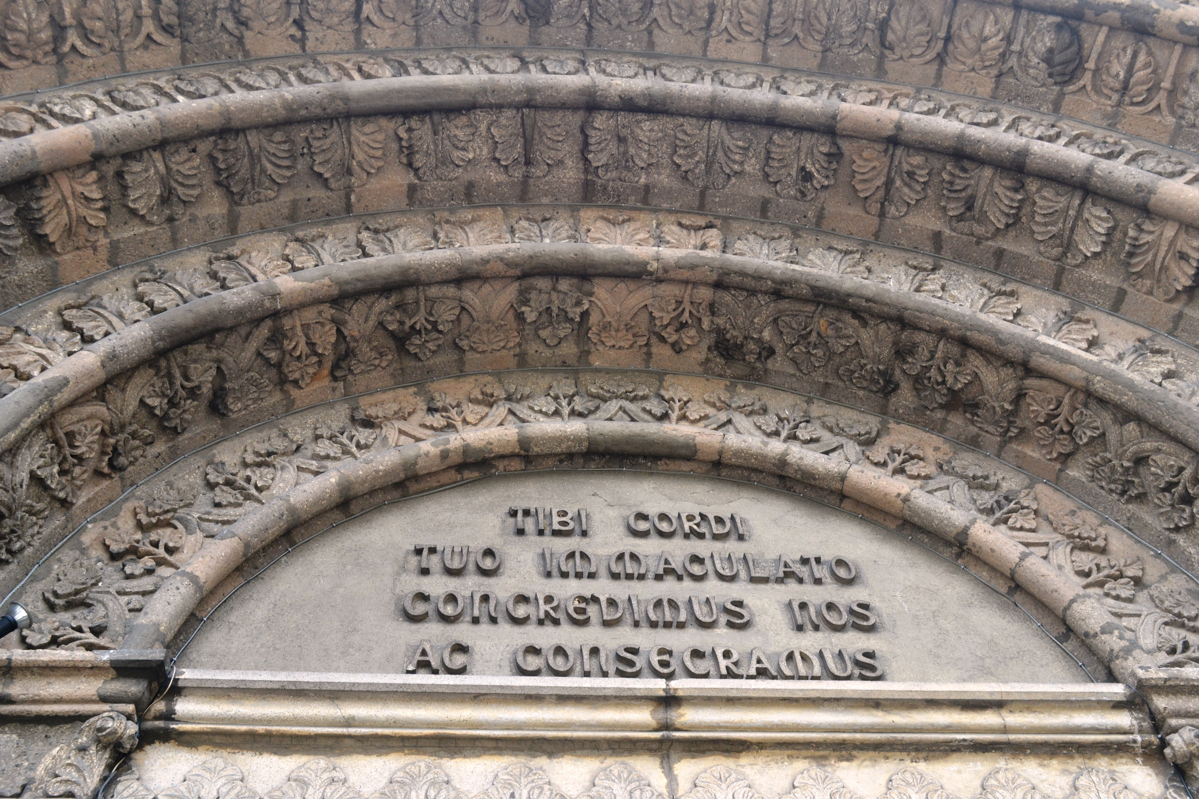 The Manila Cathedral, officially known as the Cathedral-Basilica of the Immaculate Conception, was built in 1581. Its facade is the only remaining part of the original structure after bombings, fire, and earthquake destroyed the rest.